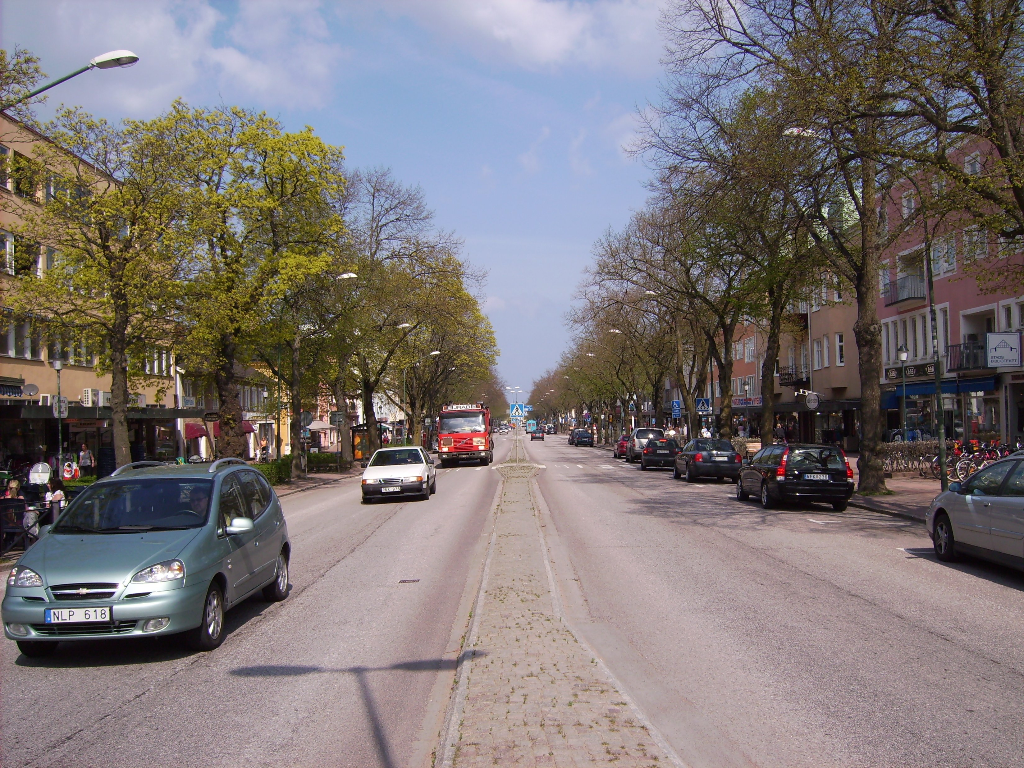 Photo by Harri Blomberg.